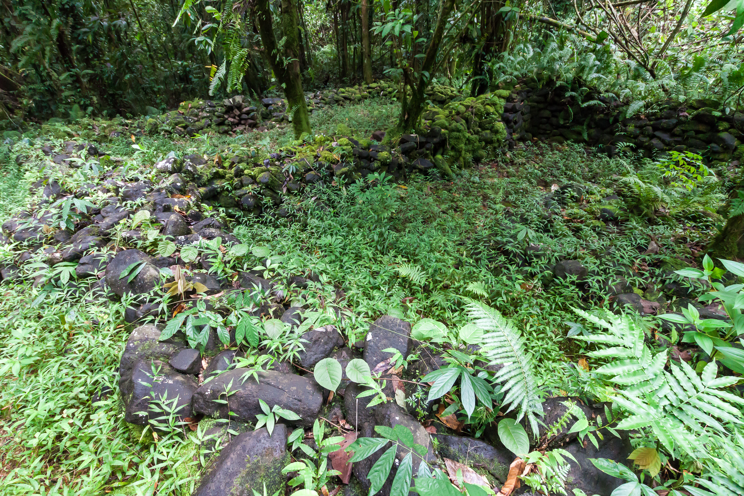 Typical fragments of Lelu ruins, in the jungle of Kosrae, Micronesia